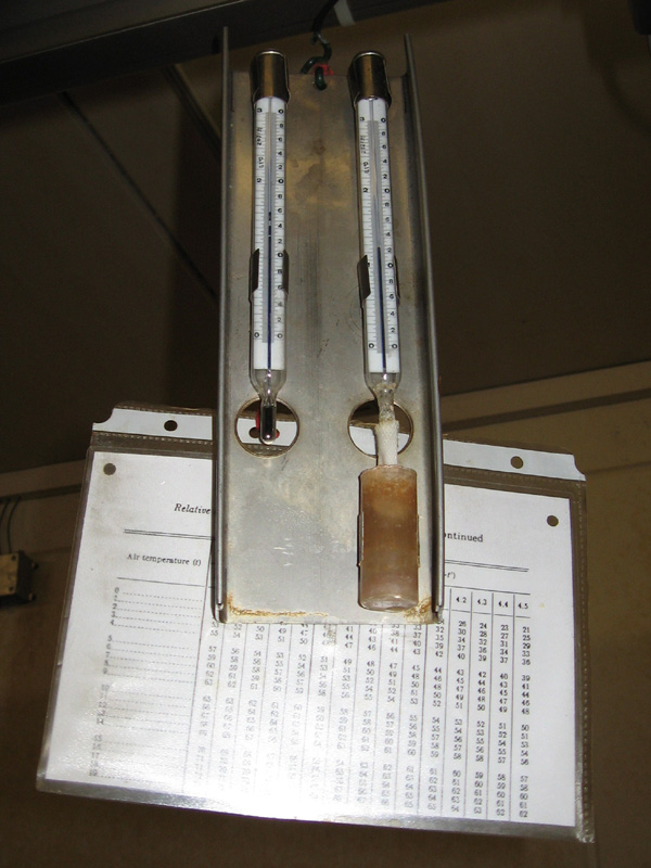 Plain old Psychrometer with psychrometric chart